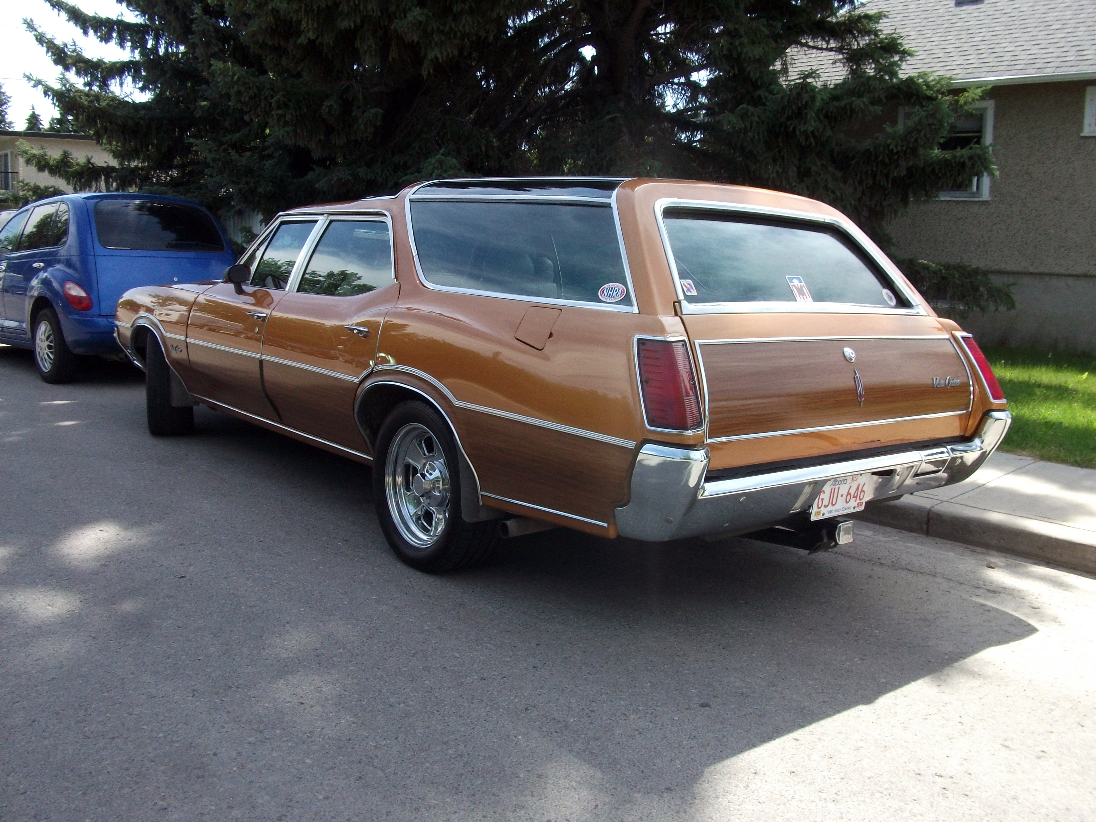 Oldsmobile Vista Cruiser station wagon parked just outside the show